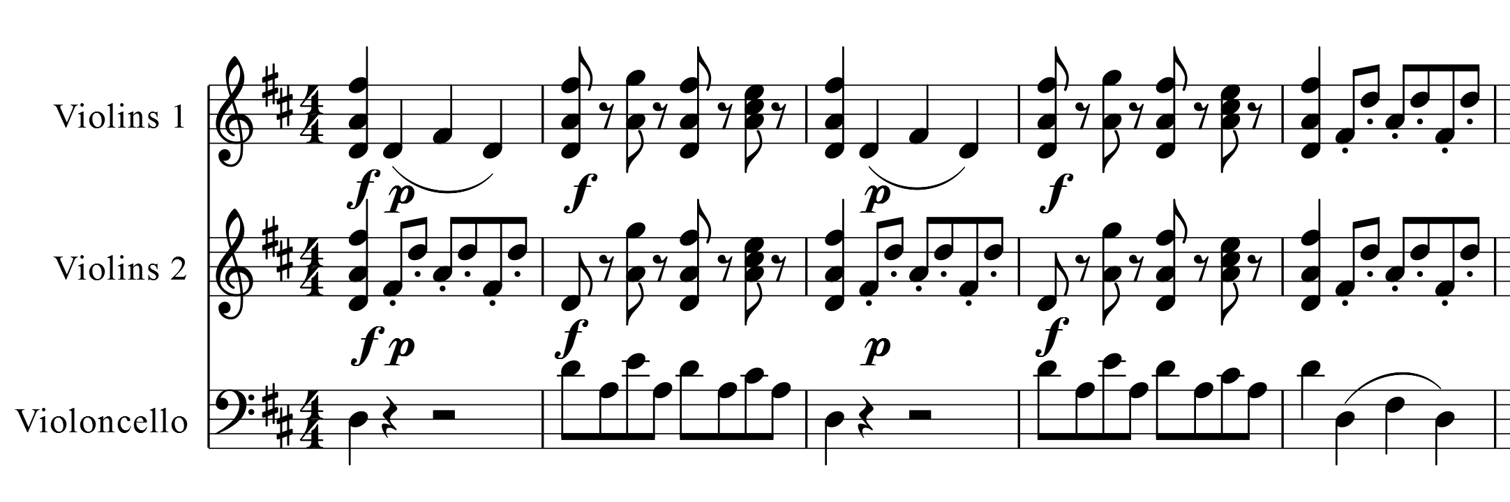 Joseph Haydn, Symphony No. 10, first movement, bar 1-5